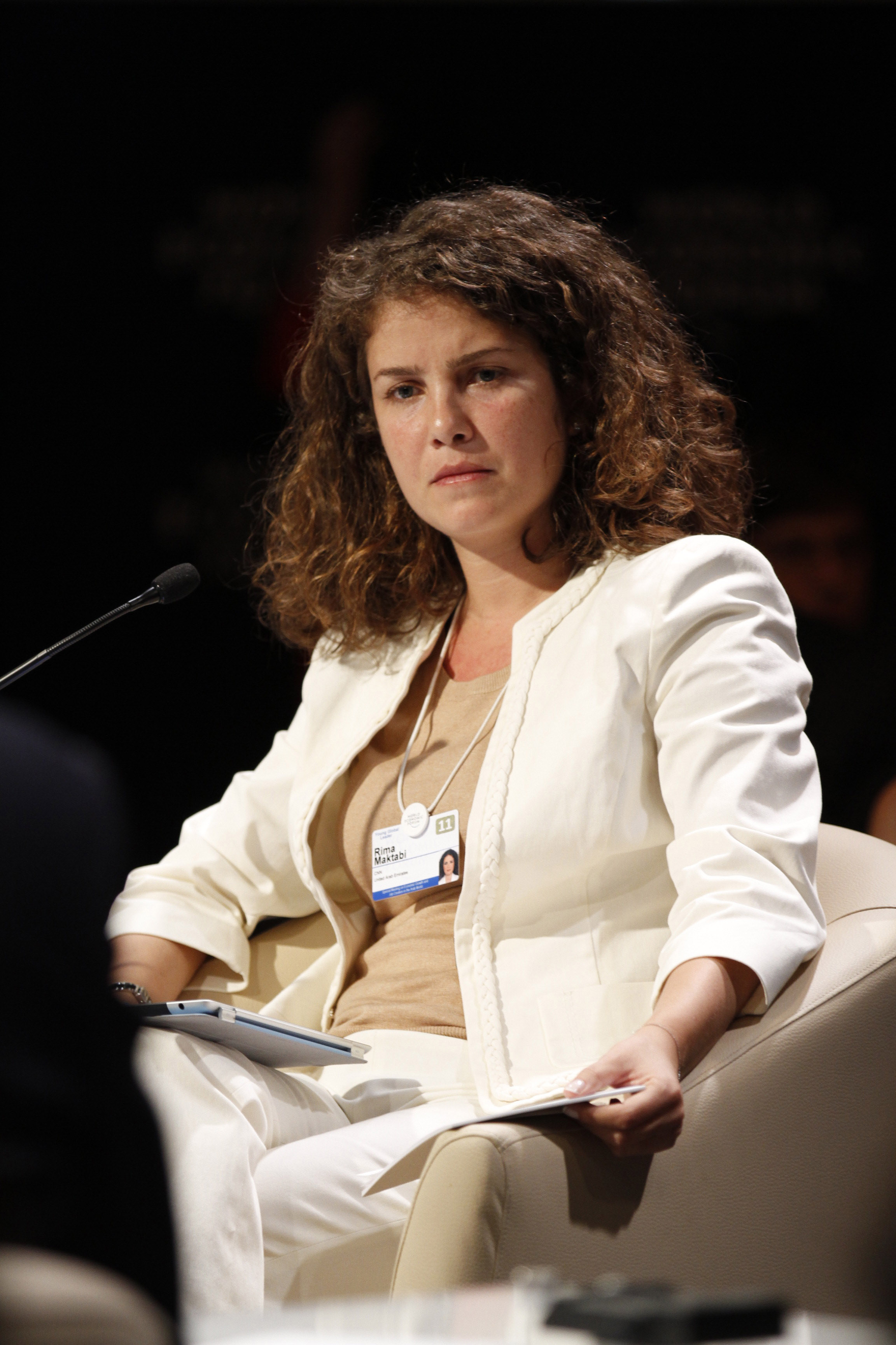 DEAD SEA/JORDAN, 23OCT11 - Rima Maktabi captured during The Future of Regional Cooperation Session during the World Economic Forum Special Meeting on Economic Growth and Job Creation in the Arab World at the Dead Sea in Jordan,22 October, 2011. Copyright World Economic Forum ( by Nader Daoud